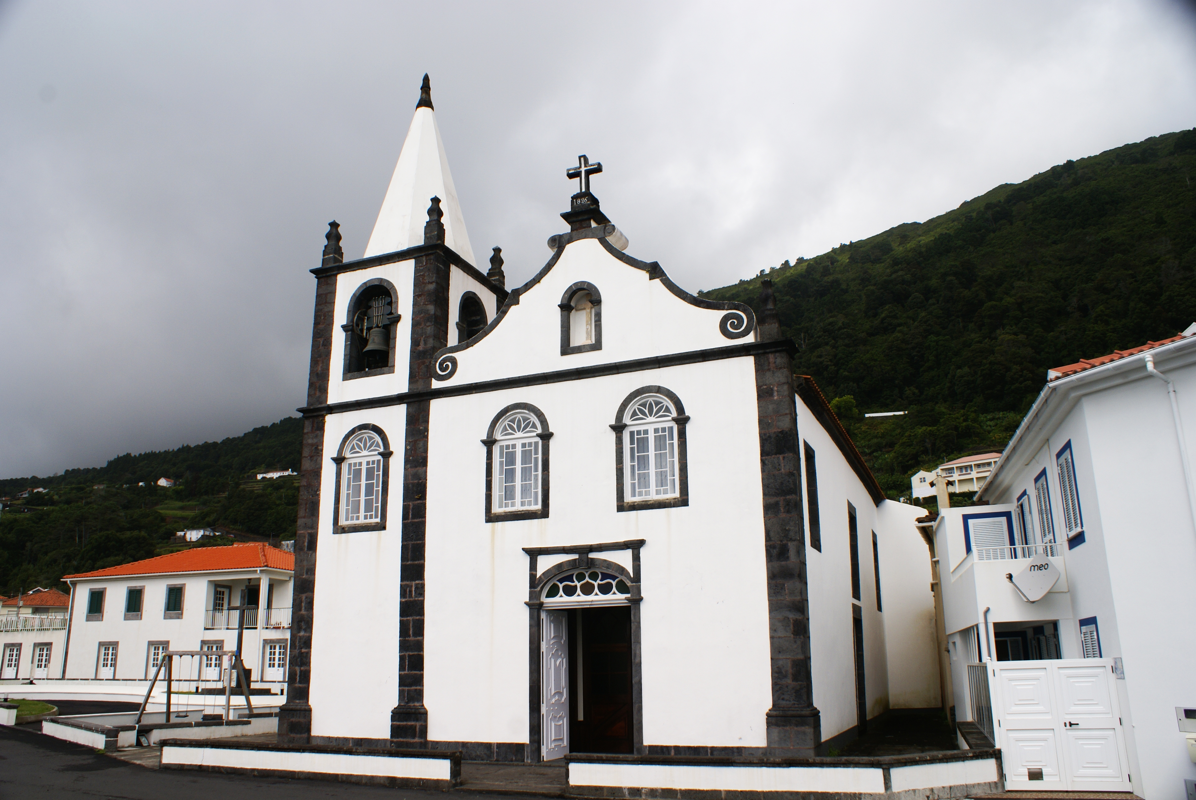 Igreja de Santa Cruz das Ribeiras, fachada, concelho das Lajes do Pico, ilha do Pico, Açores, Portugal